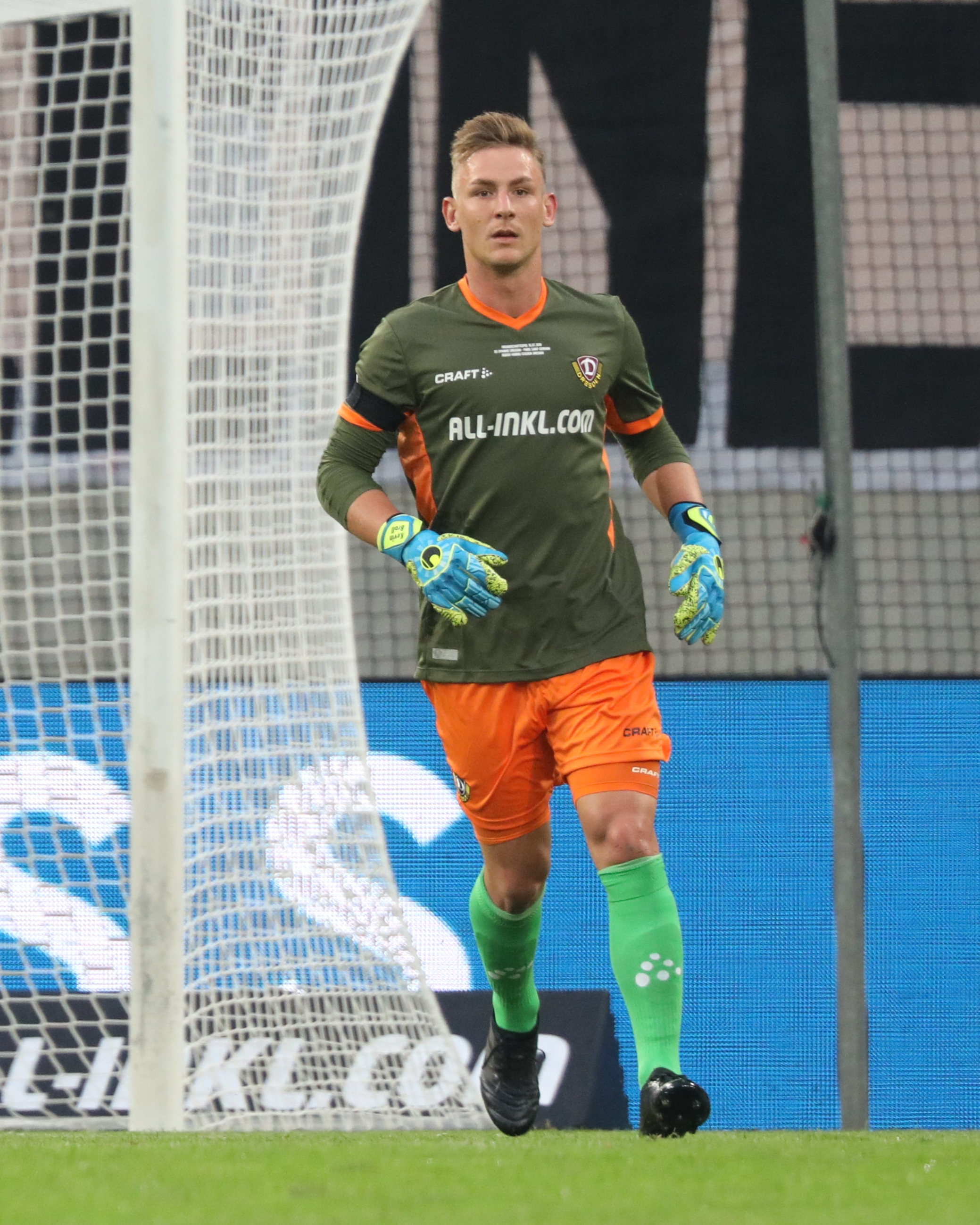 Test game, 17th July 2019: SG Dynamo Dresden vs. Paris Saint-Germain 1:6 (0:3)